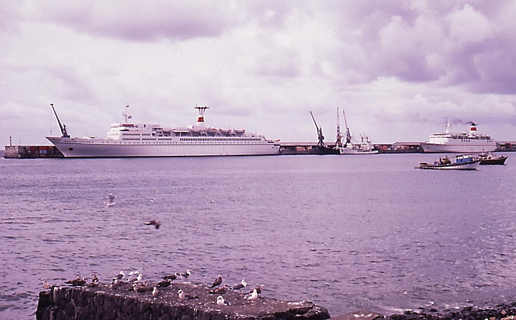 Two passenger ships of the Soviet state shipping company - Black Sea Shipping & Co. - at the pier in the port of Funchal / Madeira in 1978. - The ship that lies ahead is the Maksim Gorkiy the ex TS Hanseatic ex TS Hamburg and the shipp behind the Odessa (IMO-No. 7301221).